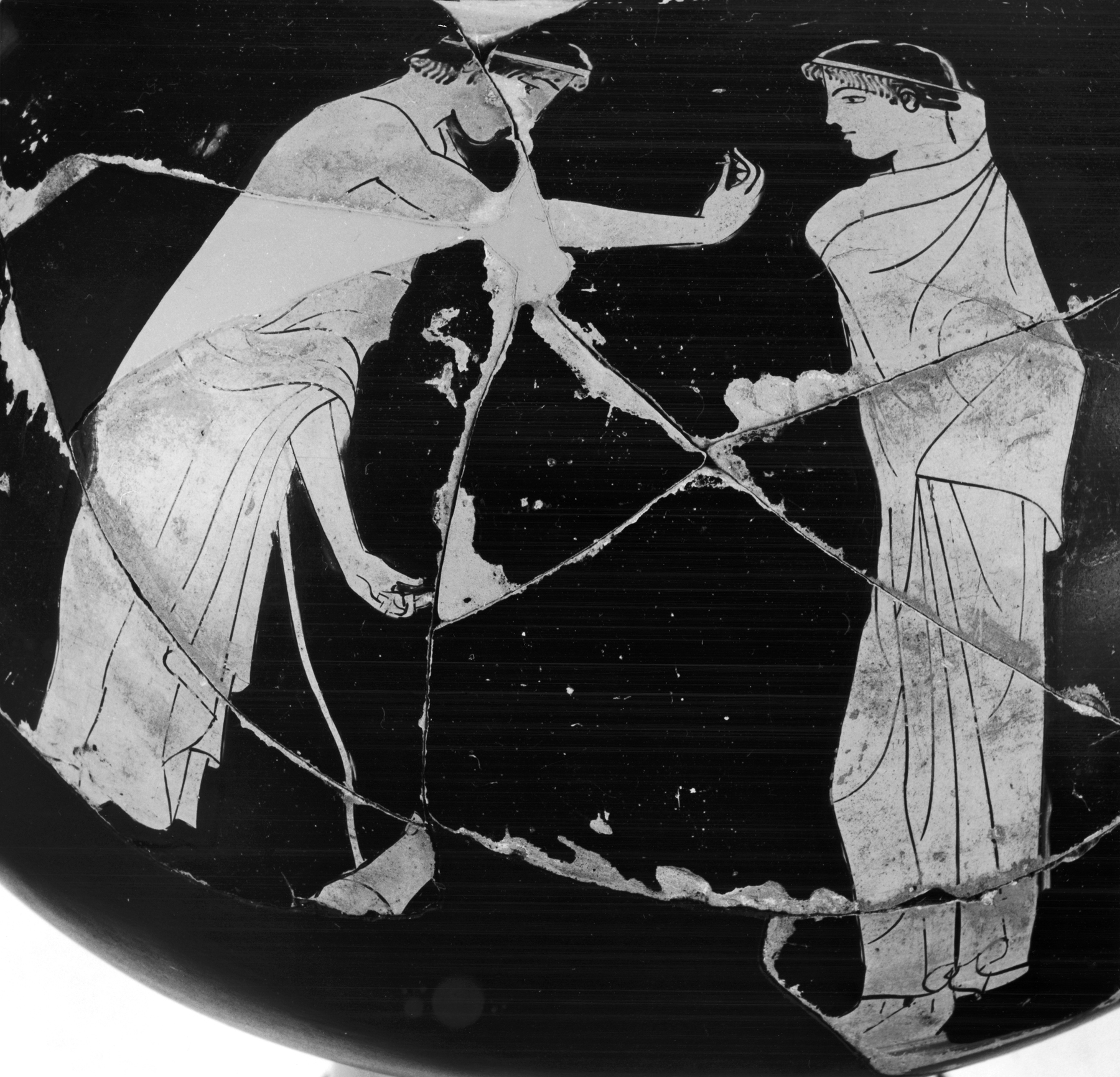 This red-figure psykter depicts an athlete and a servant boy on the front. On the left remains the left hand and lower arm of a servant holding a bag (possibly leather) by a strap. On the right a bearded male athlete in profile to the left hunches over infibulating himself; his attention is focused on the bag held by the boy. On the back are a youth and a boy (possibly courting) a dog. On the left a mantled youth with fillet leans forward on a staff. He holds both arms out and far apart, gesturing to the boy on the right. A dog (Laconian hound) sits on the ground to the right before the youth. The boy, who wears a mantle and fillet, stands attentively in profile to the left. The scene on the front is unusual. The bag held by the youth is probably of leather and may be either a small punching bag ("korukos") or simply a vessel for liquid. Leather bags were used for holding oil. The scene on the back is similar to others by the Syriskos Painter. The pose of the youth's hand is that often used by men about to or in the process of fondling their lover's genitals. This suggests a possible identification as a courting scene. The psykter comes from the Tomb of the Leopards in Tarquinia which was excavated by the Marzi brothers in 1875.